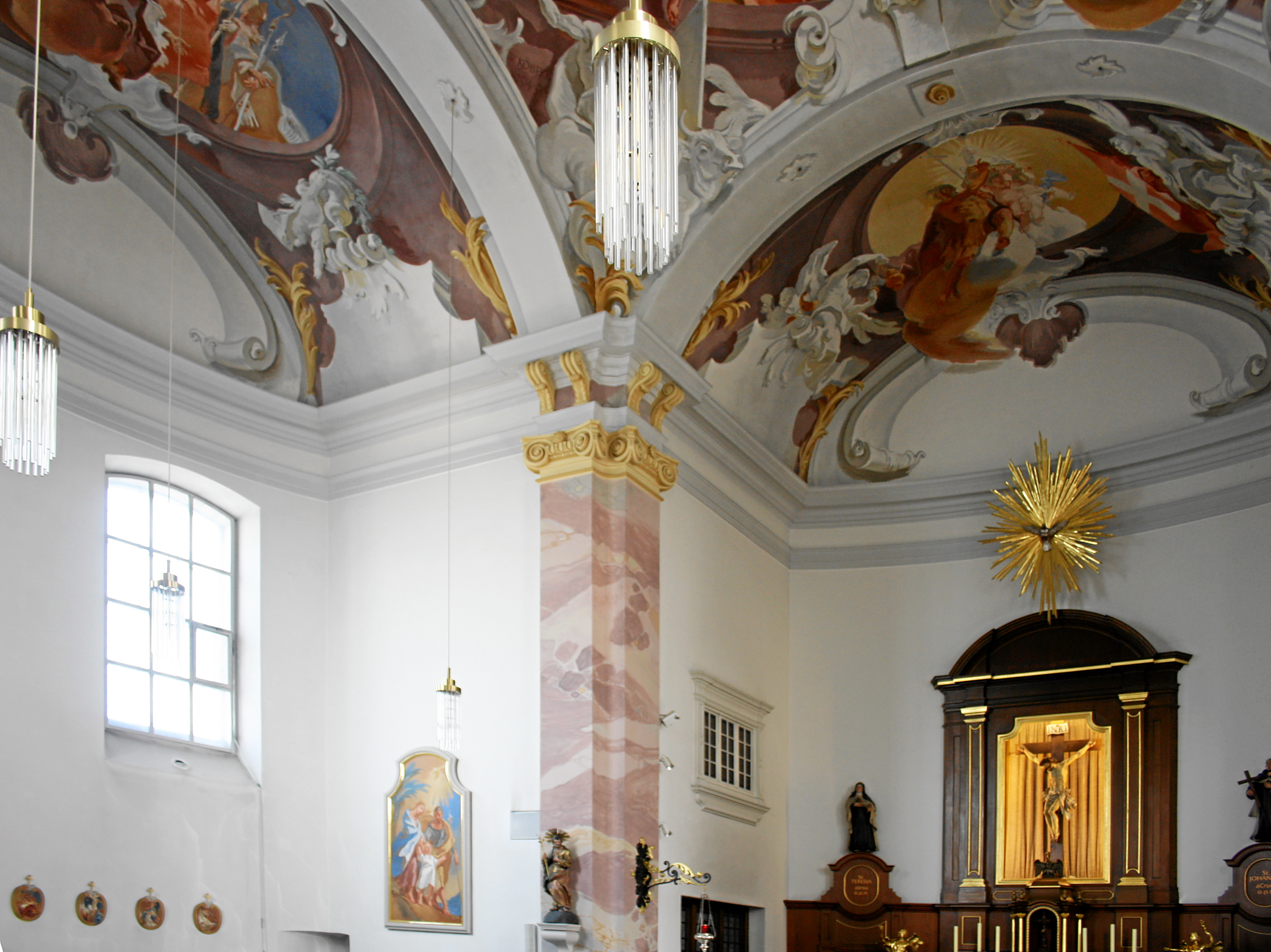 Düsseldorf, Germany. Roman-catholic chapel Saint Joseph, interior view towards North.